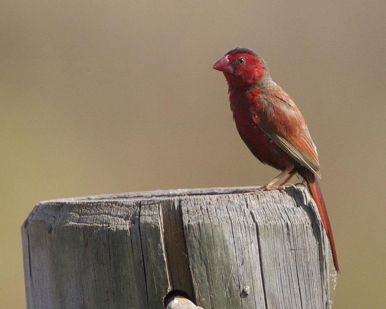 A male Crimson Finch in Middle Point, Northern Territory, Australia.